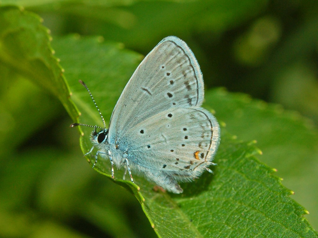 Lycaenidae - Cupido alcetas